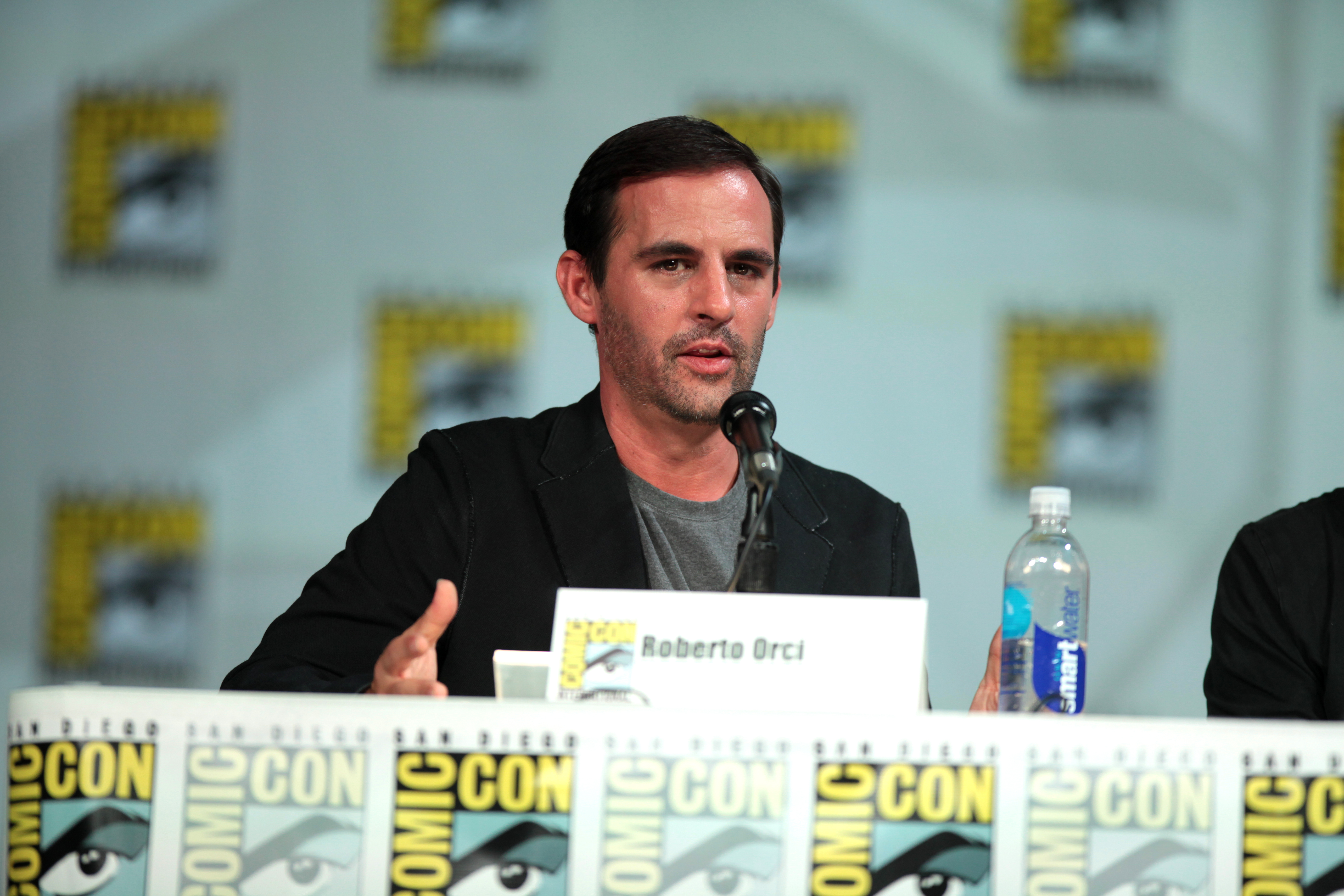 Roberto Orci speaking at the 2014 San Diego Comic Con International, for "Scorpion", at the San Diego Convention Center in San Diego, California.